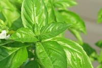 Xianghuazi